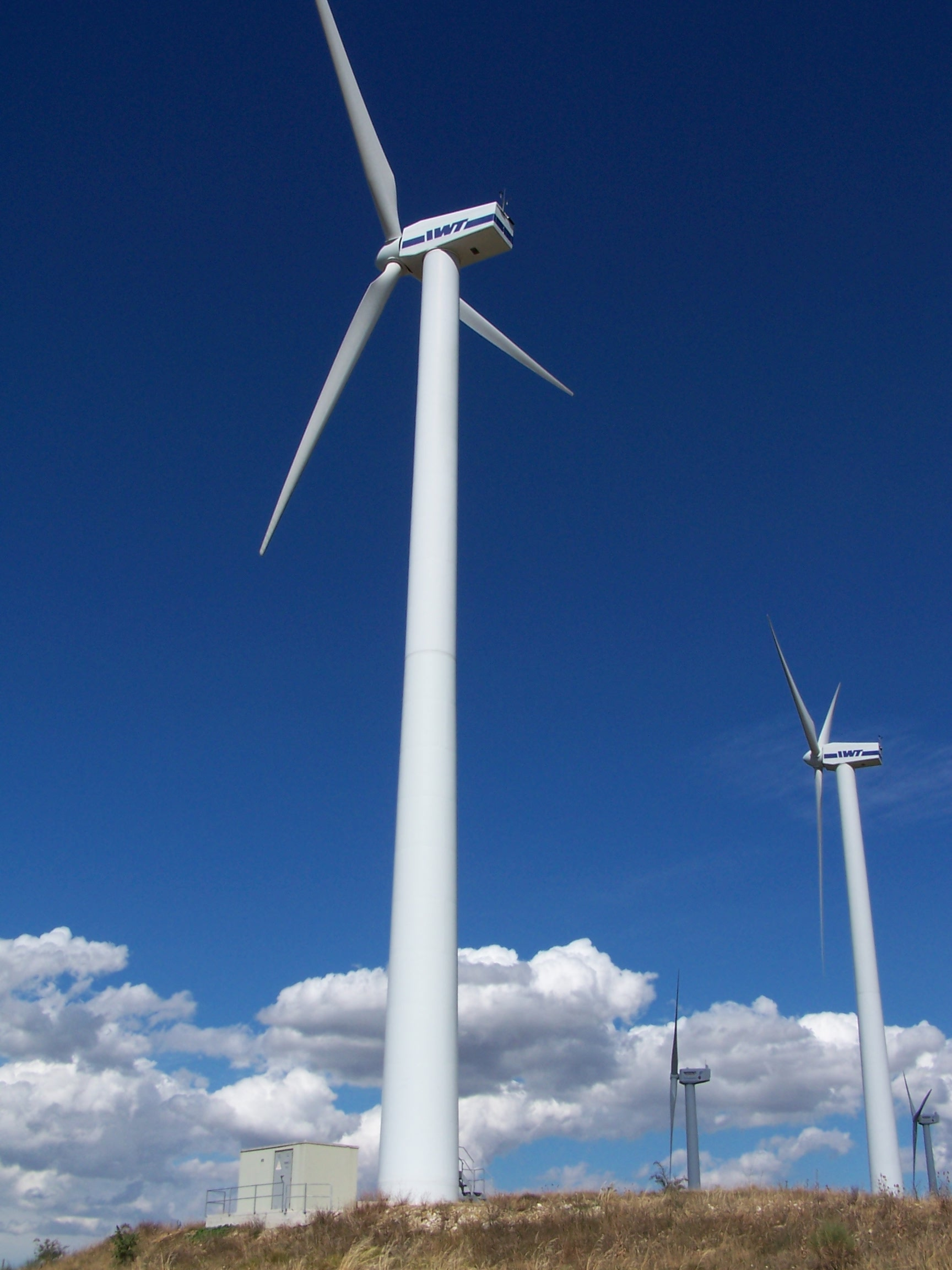 Aeolian generating station nearby Frigento (AV) - Italy.